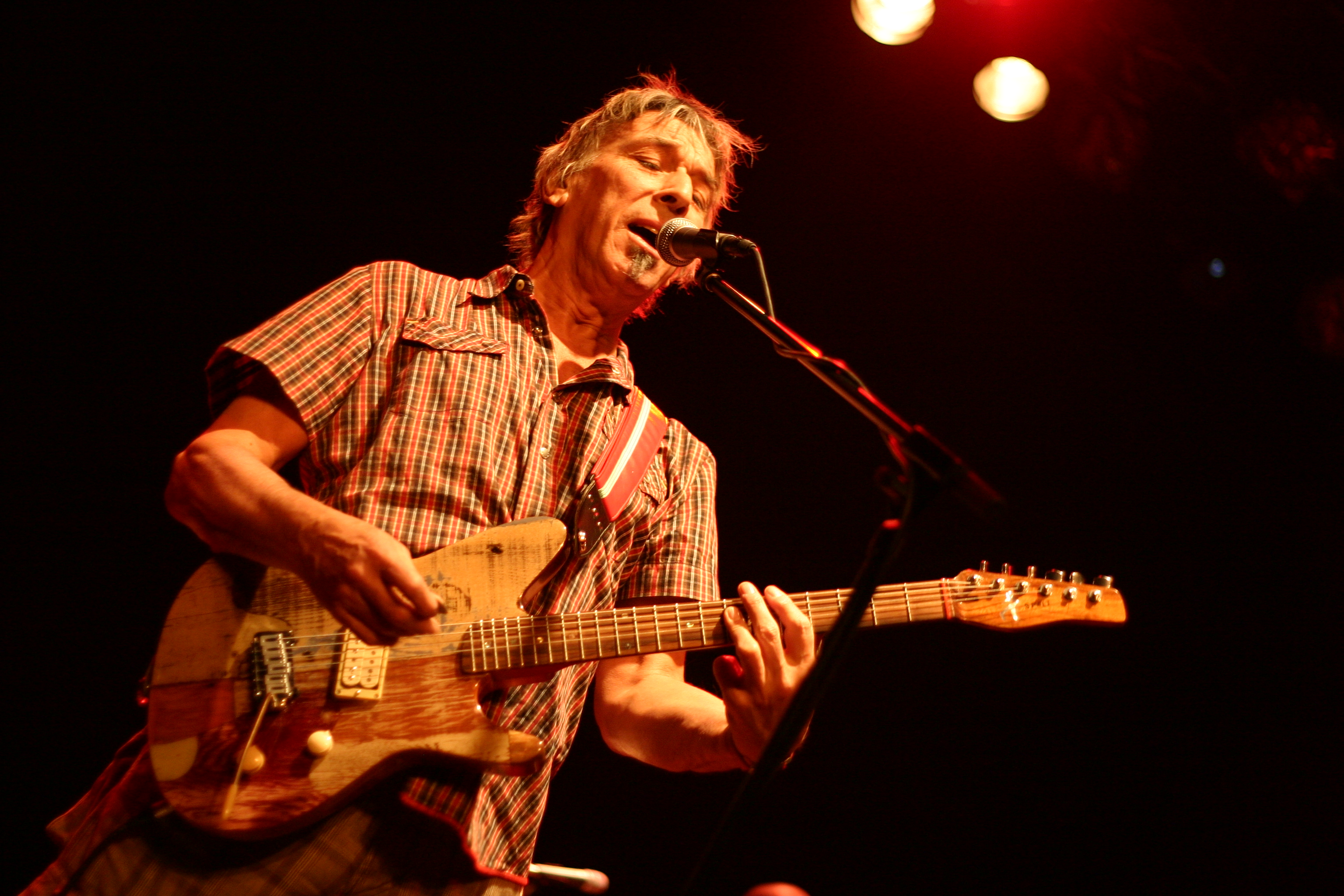 John Cale at Archa Theatre in Prague, 9 March 2006